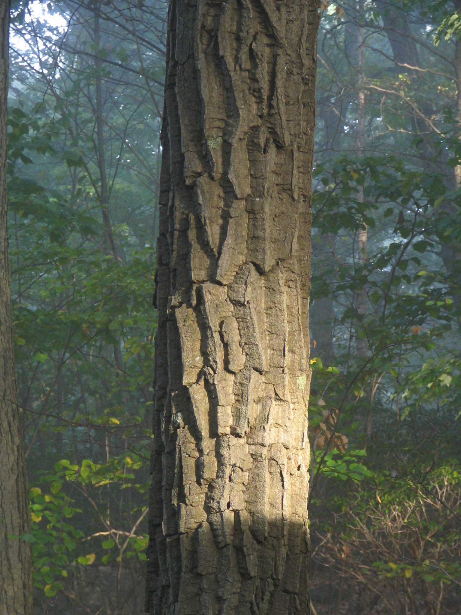 Chestnut Oak bark "Quercus montana"; 1536×2048 (894 kB). Taken by User Mwanner, 29 September, 2005.